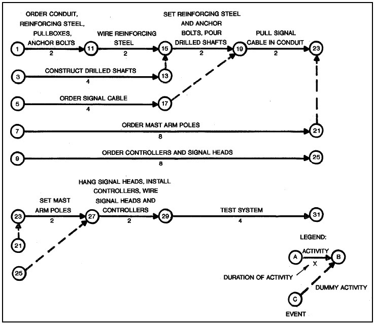 Example of CPM Network Diagram The critical path method (CPM) has proved a successful method for planning, organizing, and controlling projects. Initially, this management tool outlines the project graphically in the form of a network diagram. This representation, shown in Figure 12-3, illustrates: The required operational sequence, Which operations are concurrent, and Which must be completed before others can be initiated. CPM operations are referred to as activities. In Figure 12-3, an example of the application of CPM to the installation of a traffic control system, the activities necessary to complete the project are denoted by a line with an arrowhead. The circled numbers represent events which mark the beginning or completion of an activity. Dashed lines represent dummy activities which do not require any time but must be completed before another event can occur. The number below the activity represents the amount of time required to complete the activity. The critical path represents the project duration. In the example, the critical path is represented by the activities associated with events 1-11-15-19-23-27-29-31. In the example, if activity 7-21 required a time of 10 instead of 8, then the critical path would become 7-21-23-27-29-31, because this sequence of activities would require a longer time. In this case, the receipt of mast arm poles would establish the critical path because they must be received before they can be set in place.